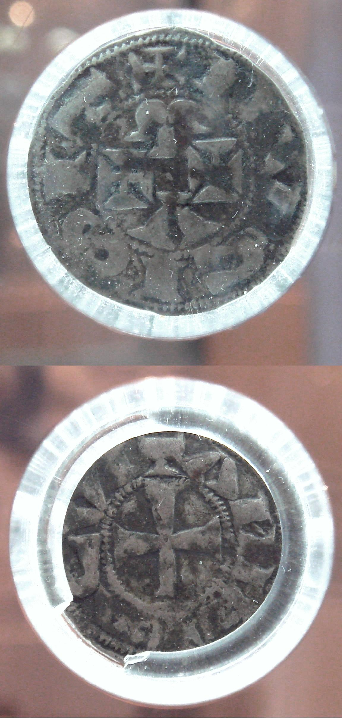 Alienor_d_Aquitaine_1060mg